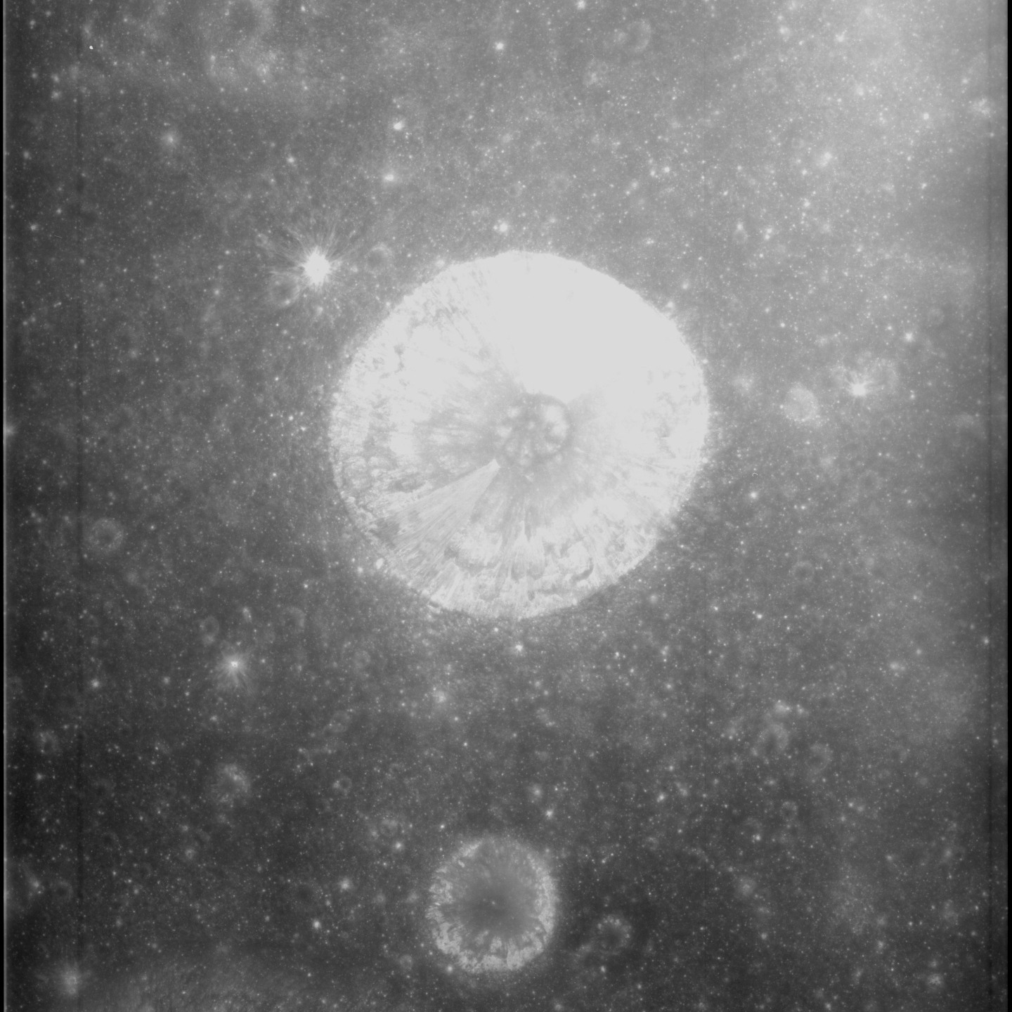 Slightly oblique view of Cajal, on the moon.